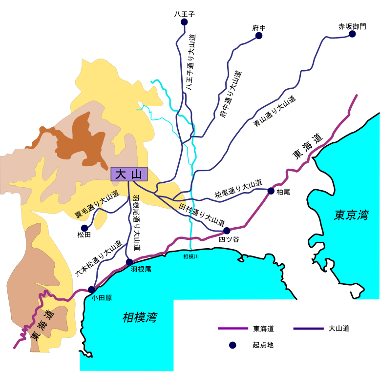 This Map is Ōyamadō-roads(大山道) in Kanto area, Edo period.in the history of Japan.